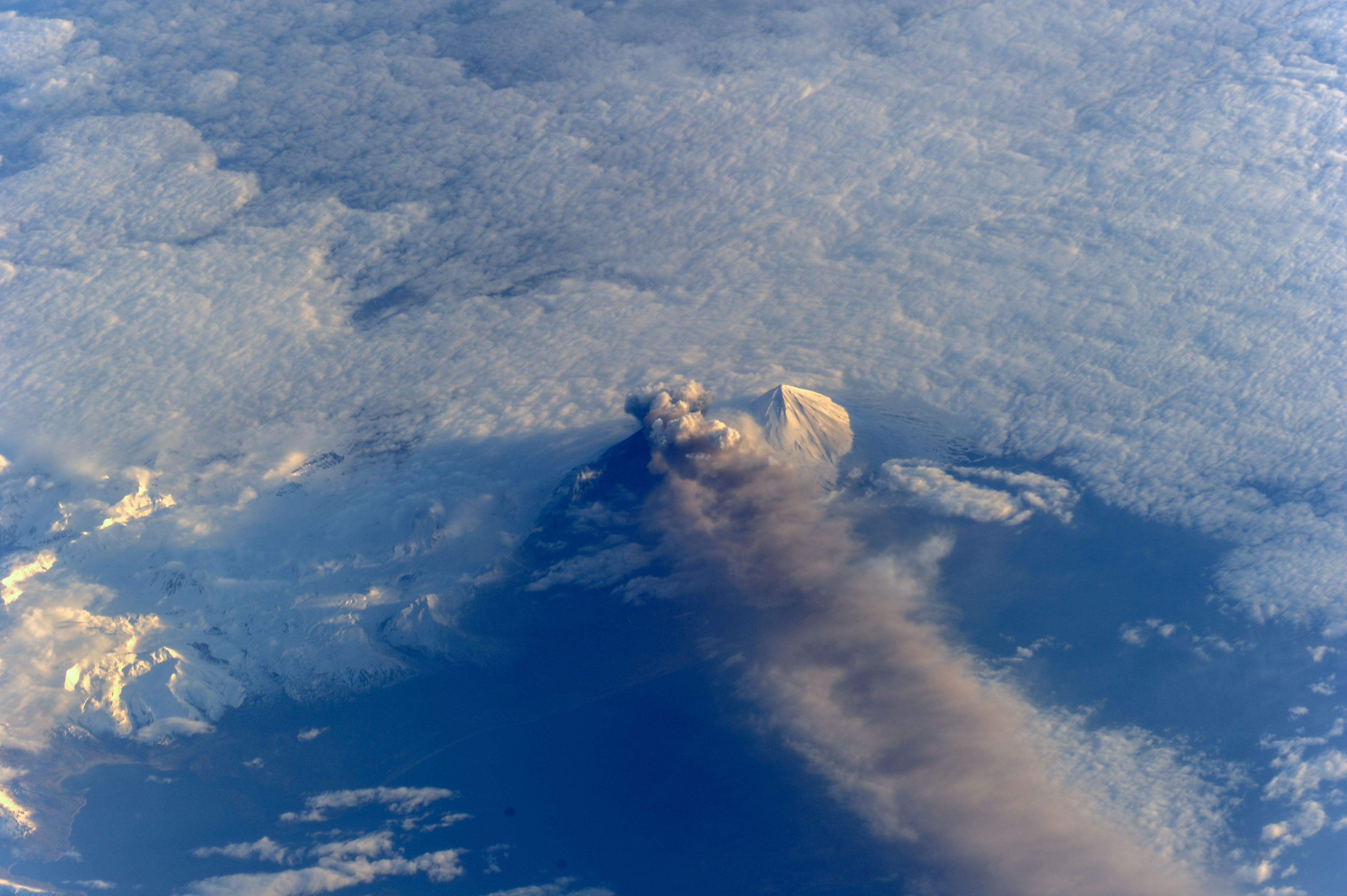 Pavlof Volcano was captured in the fourth day of its eruption by one of the Expedition 36 crew members on the International Space Station. Pavlof volcano, on the Alaskan Peninsula, about 625 miles (1,000 kilometers) southwest of Anchorage, jetted lava into the air and spewed an ash cloud 20,000 feet (6,000 meters) high. The space station was above a point in the North Pacific Ocean located at 49.1 degrees north latitude and 157.4 degrees west longitude, about 475 miles south-southeast of the volcano. The volcanic plume extends southeastward. The volcano began erupting May 13.